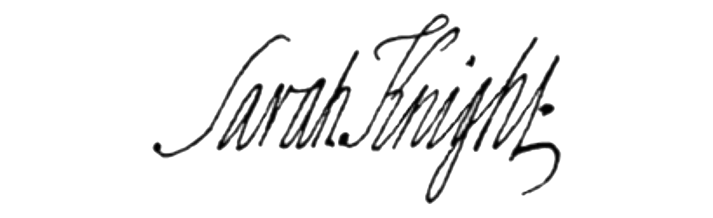 Signature of Sarah Kemble Knight courtesy of The Gilder Lehrman Collection (The Livingston Papers)